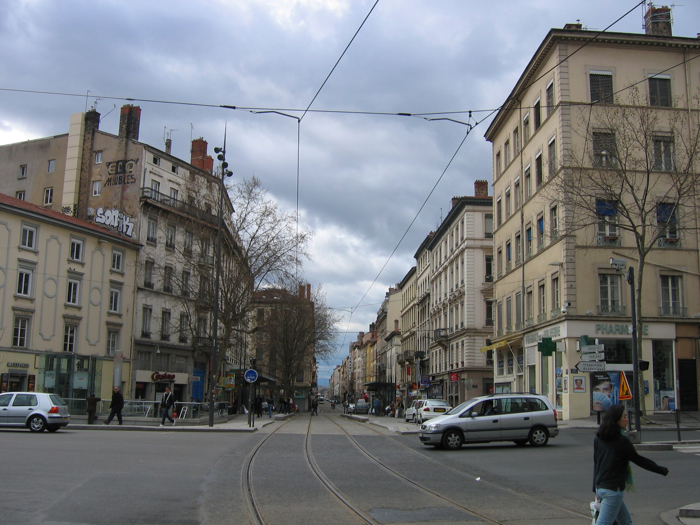 Place du Pont in Lyon. The name of the place is now « Place Gabriel Péri ». The building on the left is the old city hall of the municipality of La Guillotière, which has been absorbed by Lyon in 1852.